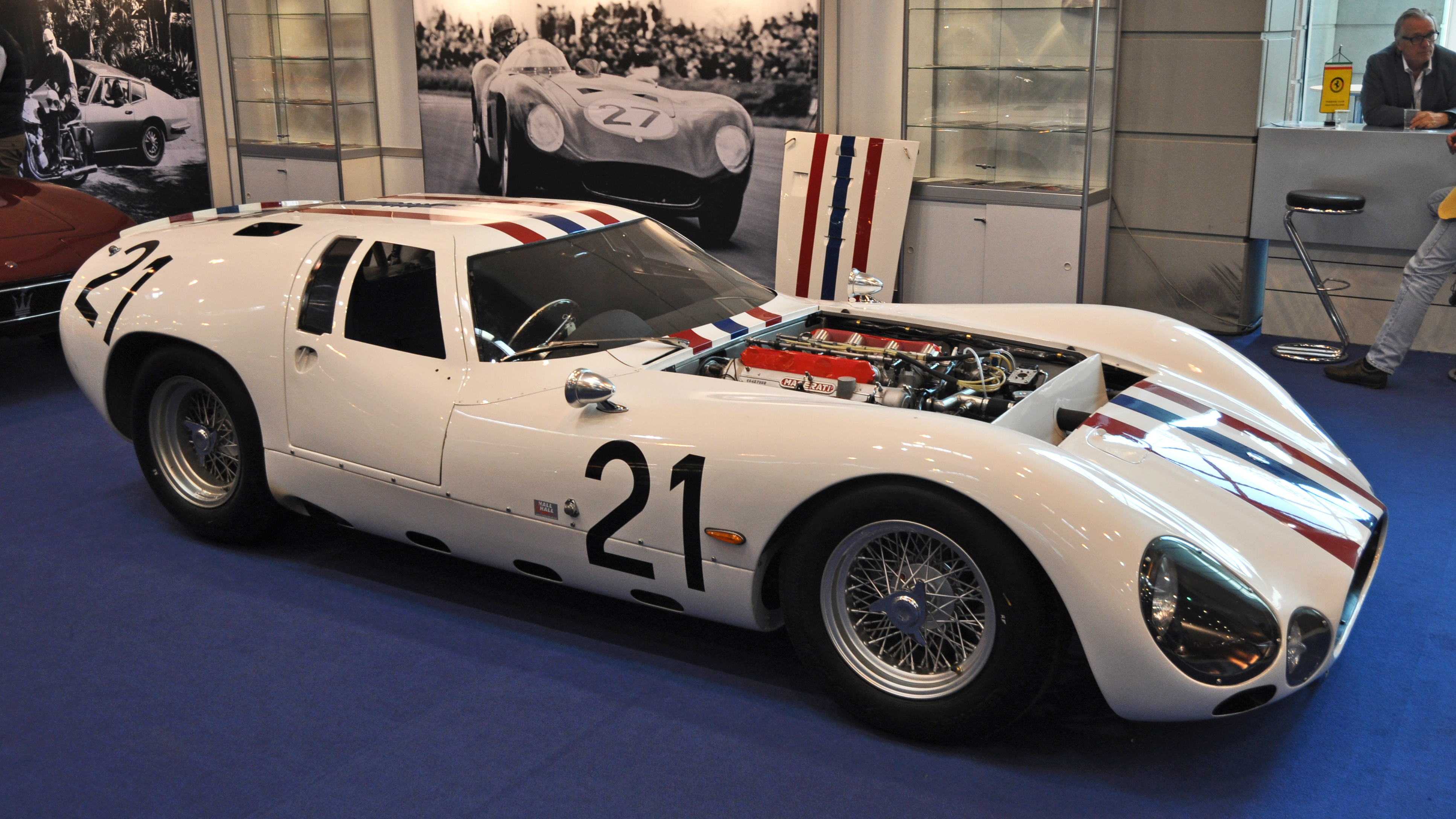 Maserati Tipo 151 (1962) at the Essen Technoclassica 2015